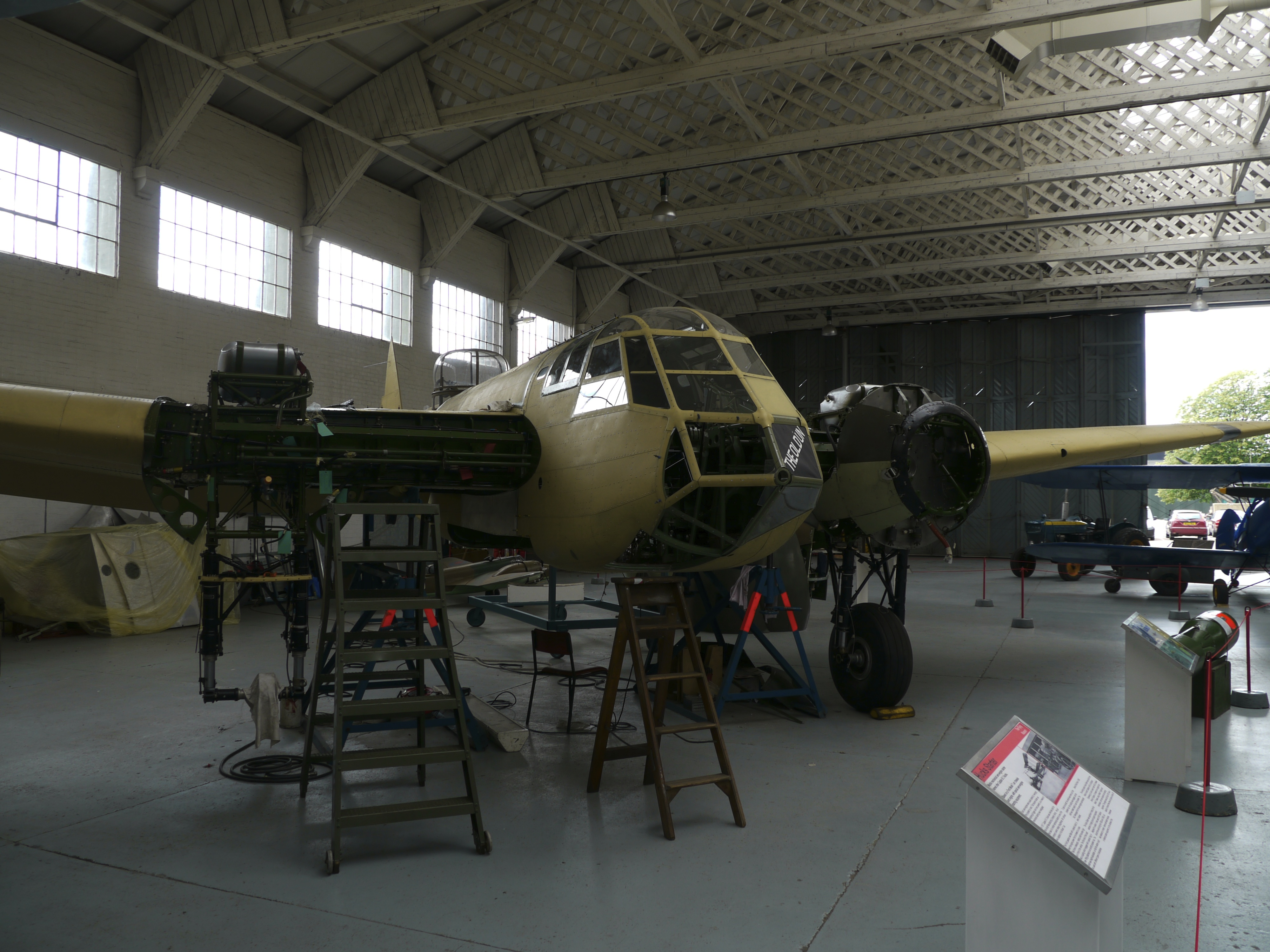 Imperial War Museum, Duxford, UK.